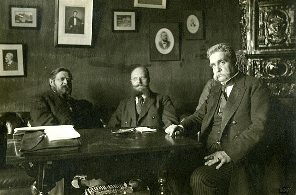 Swedish Social Democratic leader Hjalmar Branting (right), French politician Albert Thomas (left) and Danish politician Thorvald Stauning (center) during the 1917 Stockholm Peace Conference.